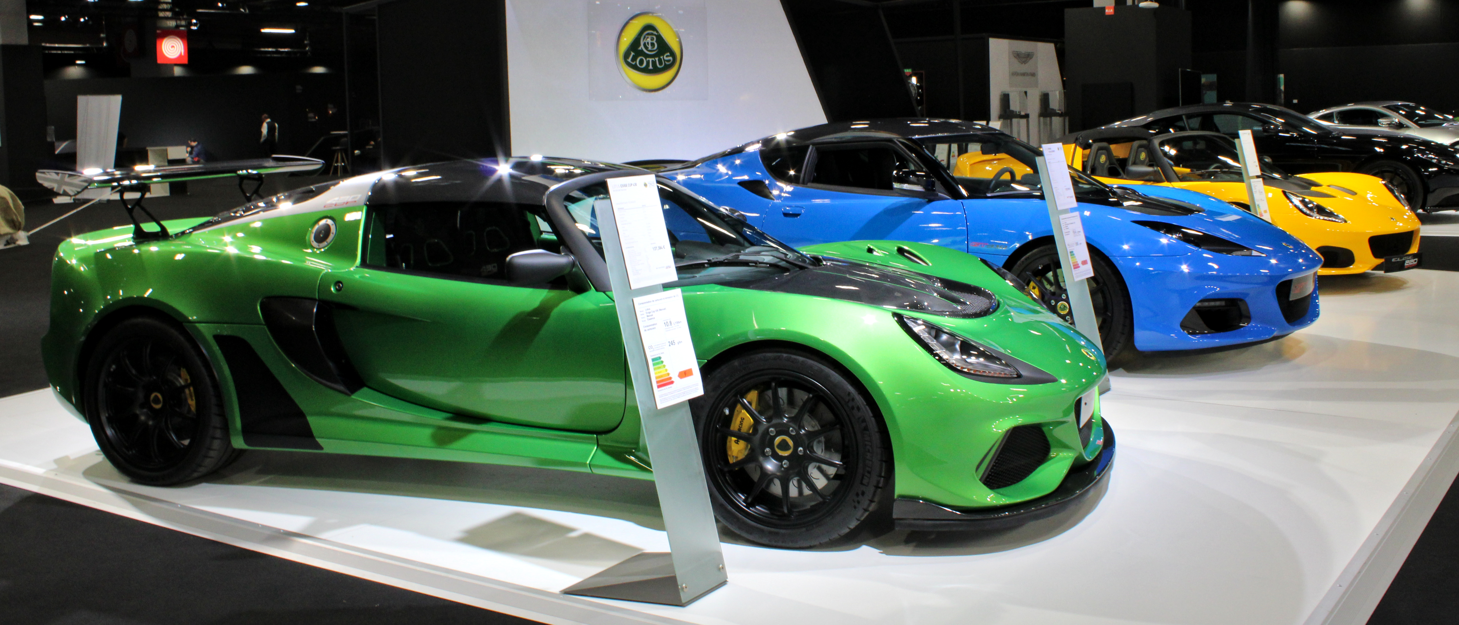 Lotus at Paris Motor Show 2018